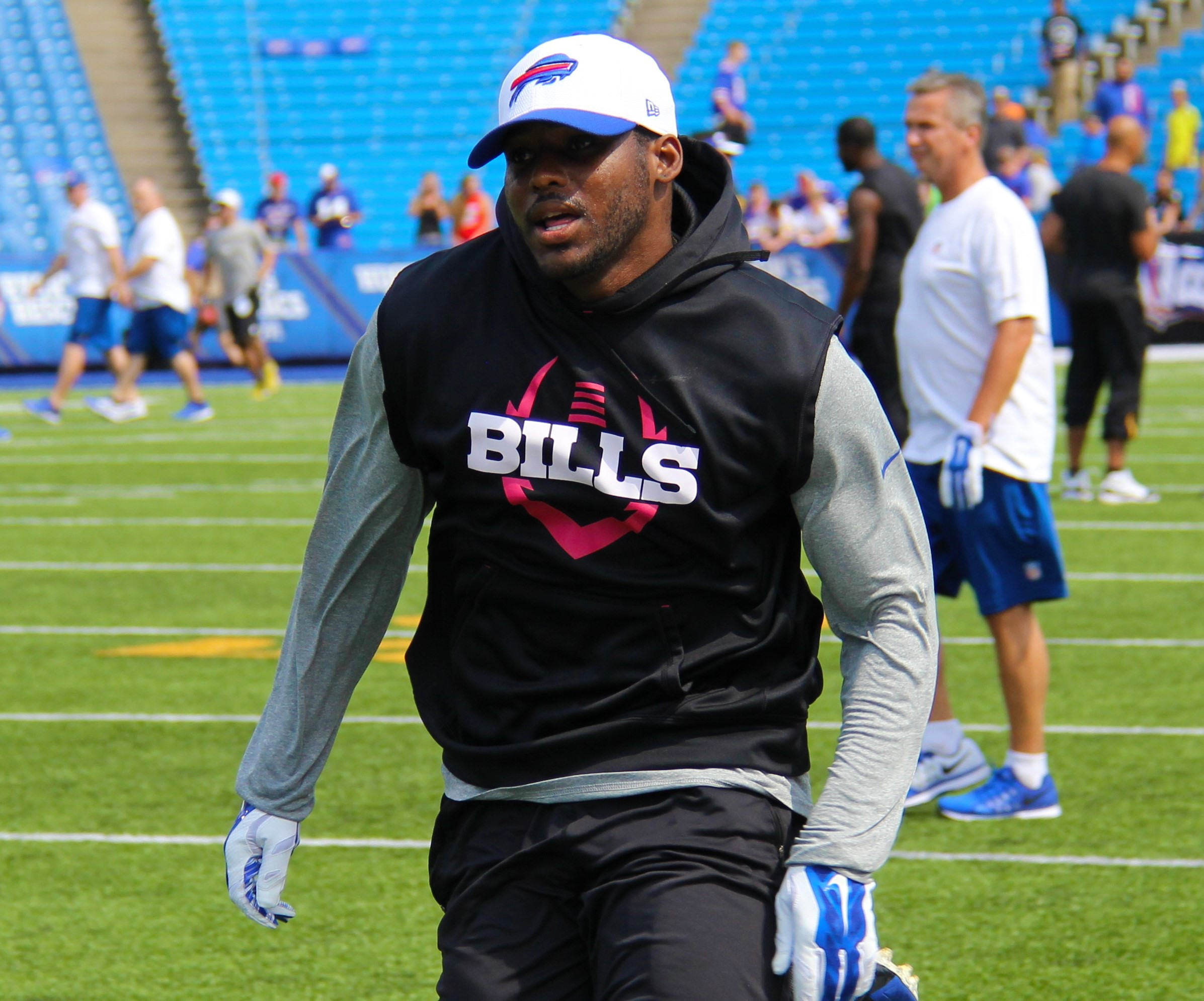 Warming up in 2015